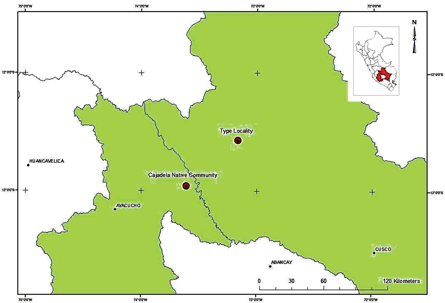 Map showing the type locality and the second site of occurrence (Cajadela Native Community) for Potamites montanicola.